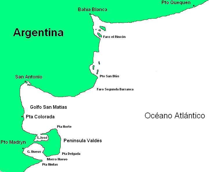 Graphic about main details of argentine continental coast